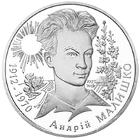 Coin of Ukraine